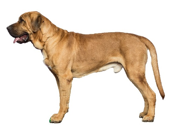 Side view of a male Broholmer. The Broholmer is a Danish dog breed. The dog pictured is Pago Threant Ymir